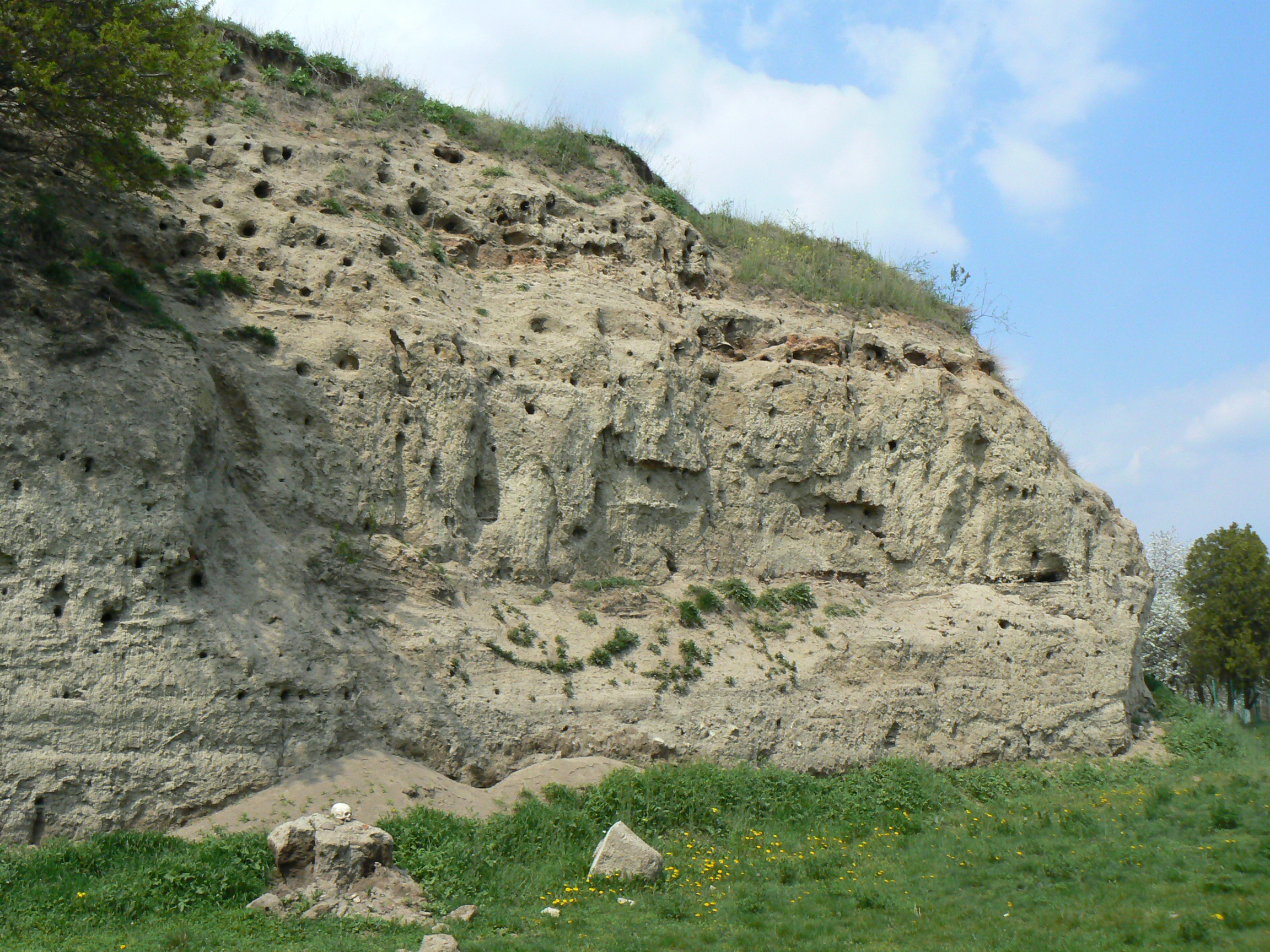 The north side of the Karanovo tumulus. On File:Karanovo-jar-2.jpg and File:Karanovo-jar-3.jpg there is a closer view of a fireplace and preserved vessel